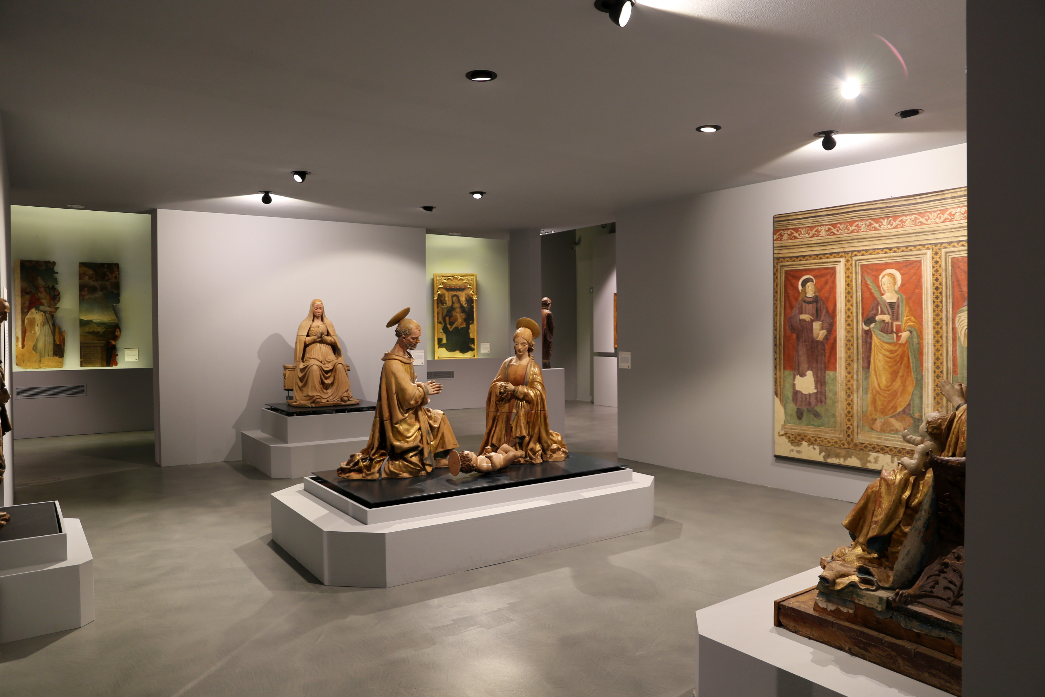 Museo nazionale d'Abruzzo